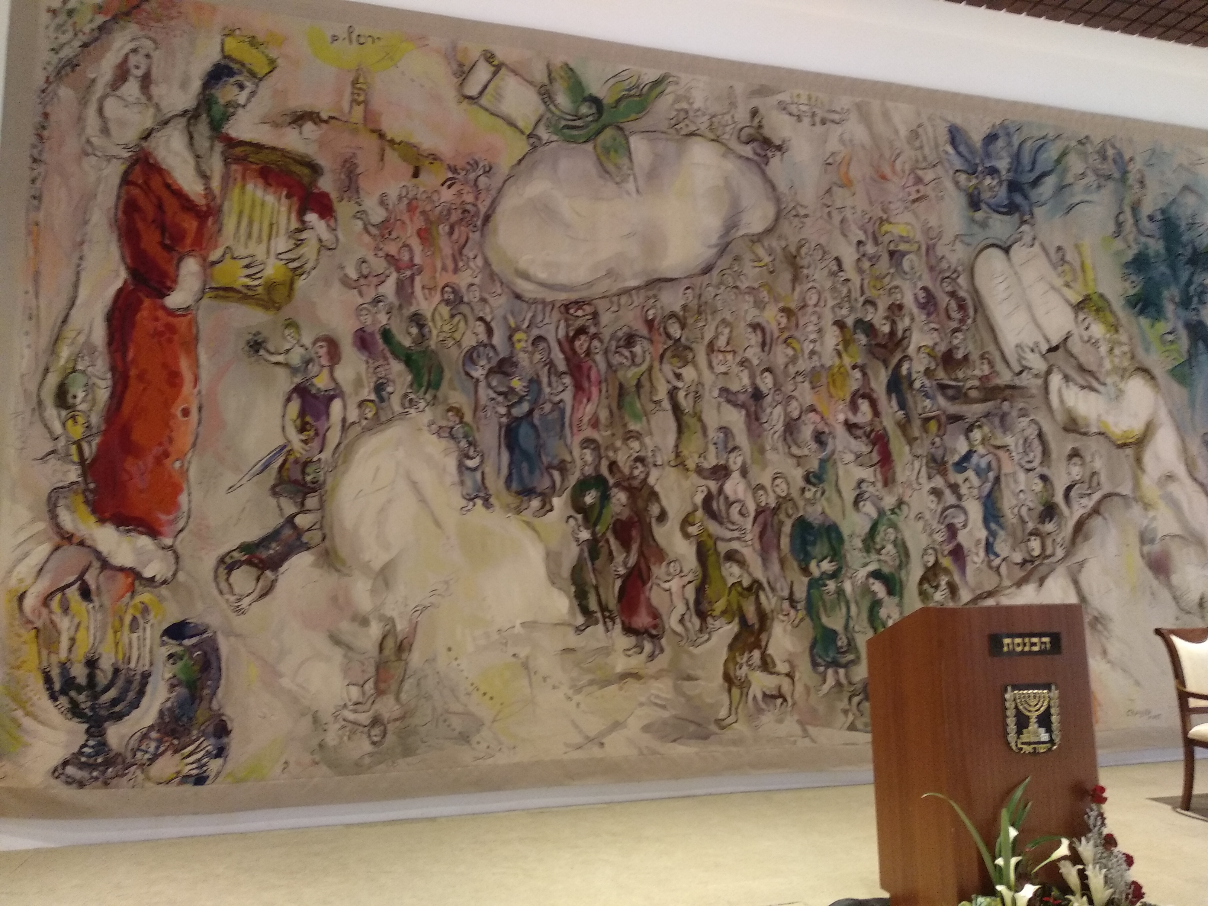 Marc Chagall Lounge in the Knesset